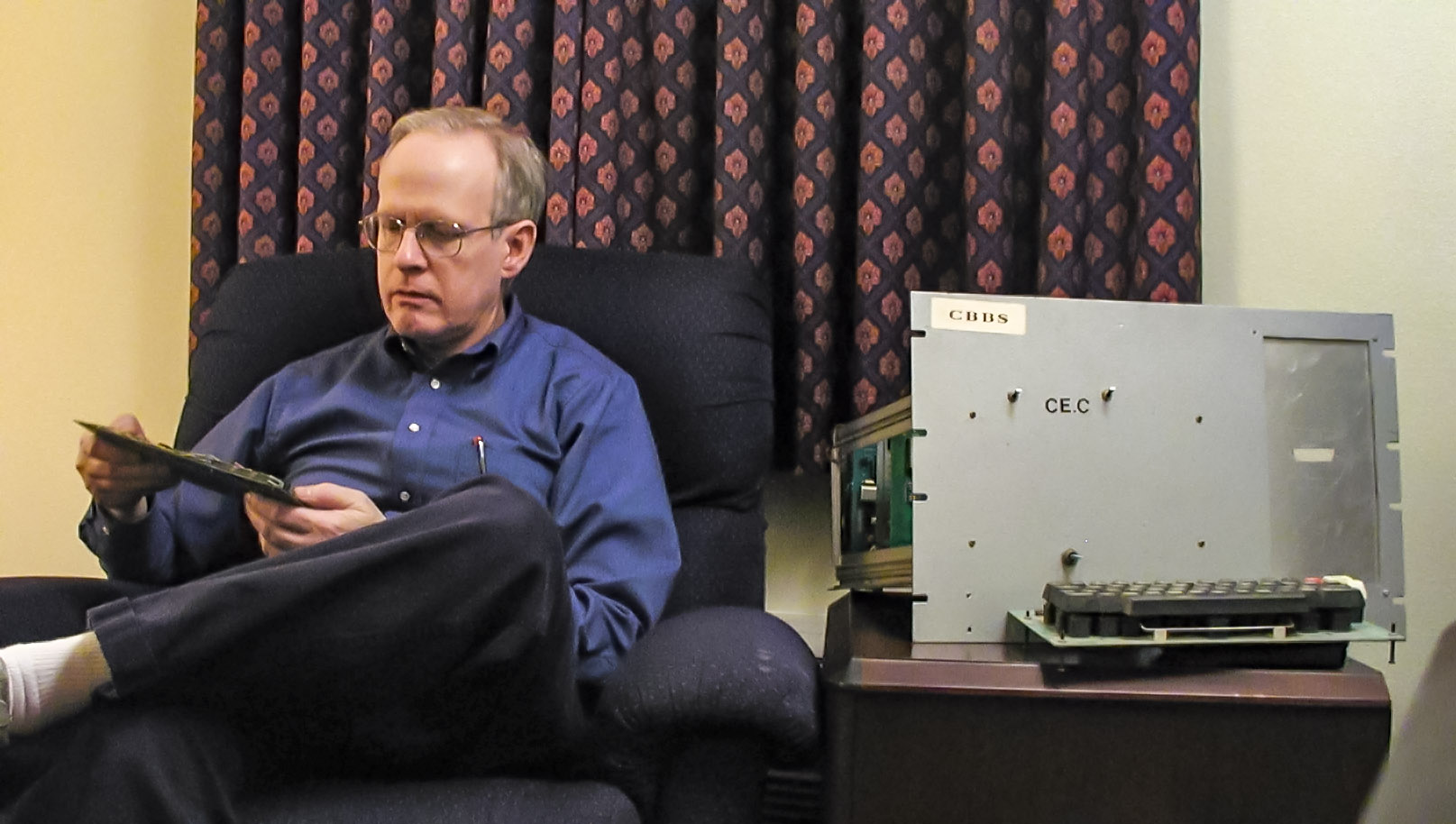 Ward Christensen with CBBS, the first computer bulletin board system